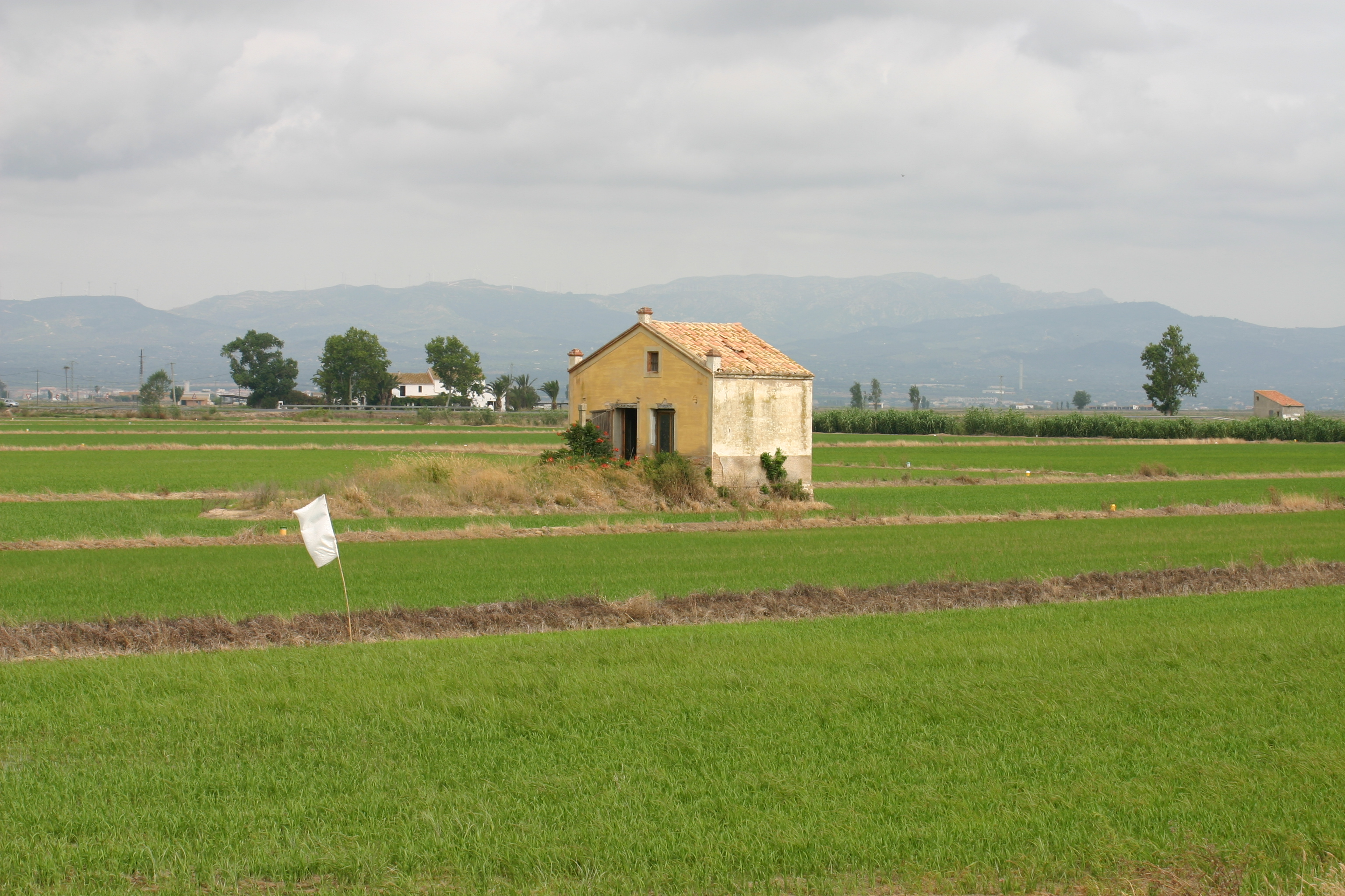 Plantation of rice